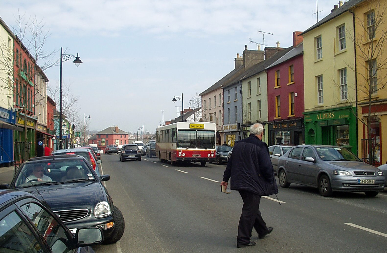 Main St Gorey County Wexford